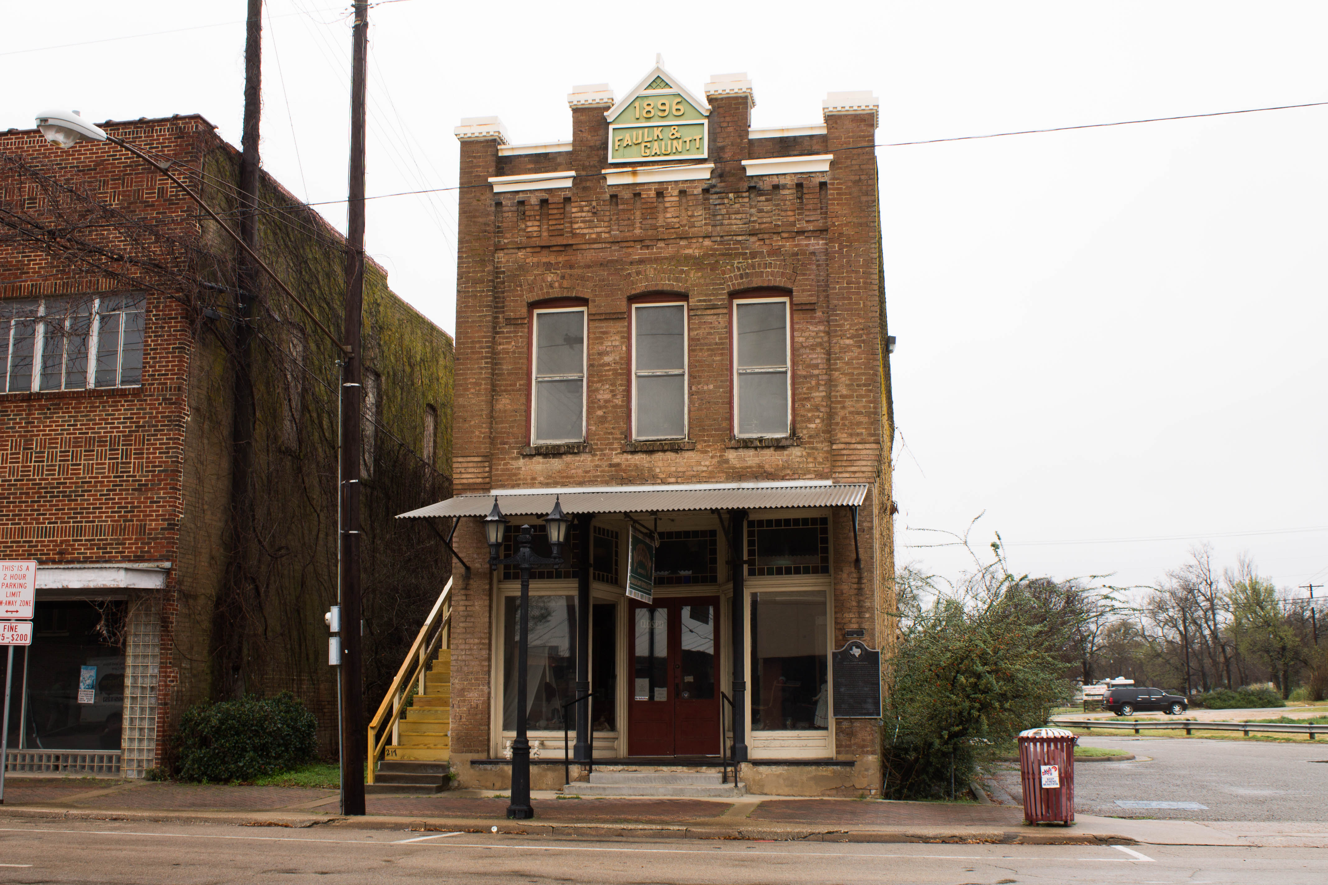 Frank and Gauntt Building in Athens, Texas